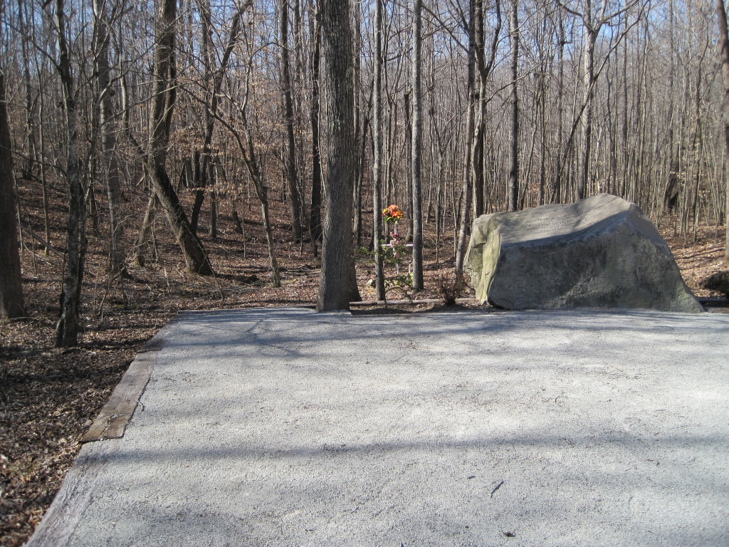 Patsy Cline Memorial at the crashsite where she died in a plane crash near Camden, Tennessee in 1963. I took the photo myself, feel free to use it.